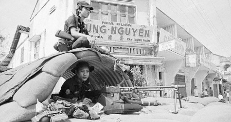 South Vietnamese soldier using a BAR gun